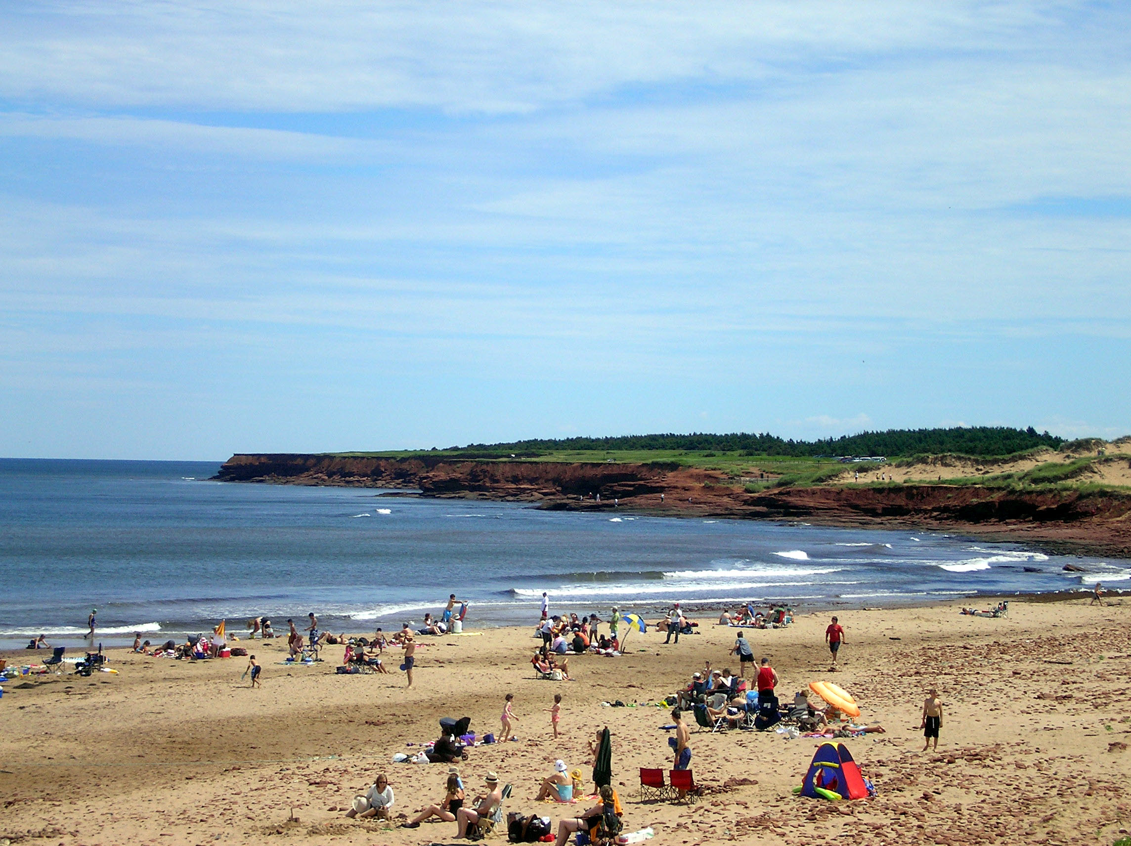 Cavendish beach and bluffs